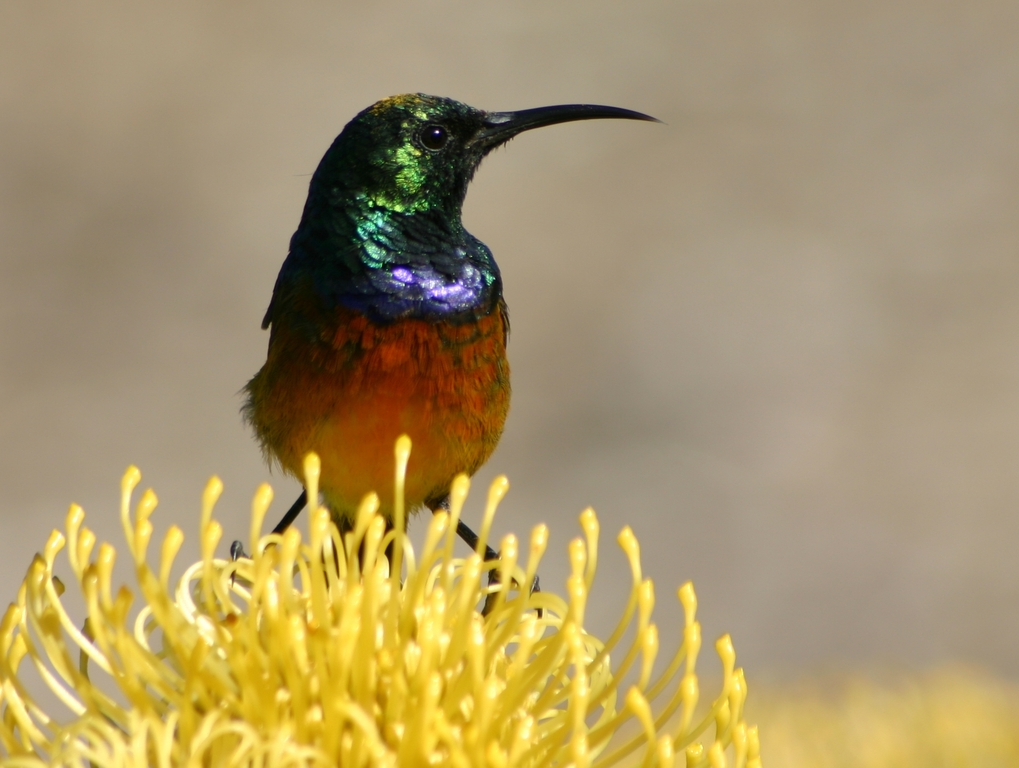 Anthobaphes violacea The Orange-breasted Sunbird, Anthobaphes violacea, is a small bird, the only member of the genus Anthobaphes although it is sometimes placed in the genus Nectarinia. This sunbird is endemic to the fynbos habitat of southwestern South Africa, but also occurs in parks and gardens.